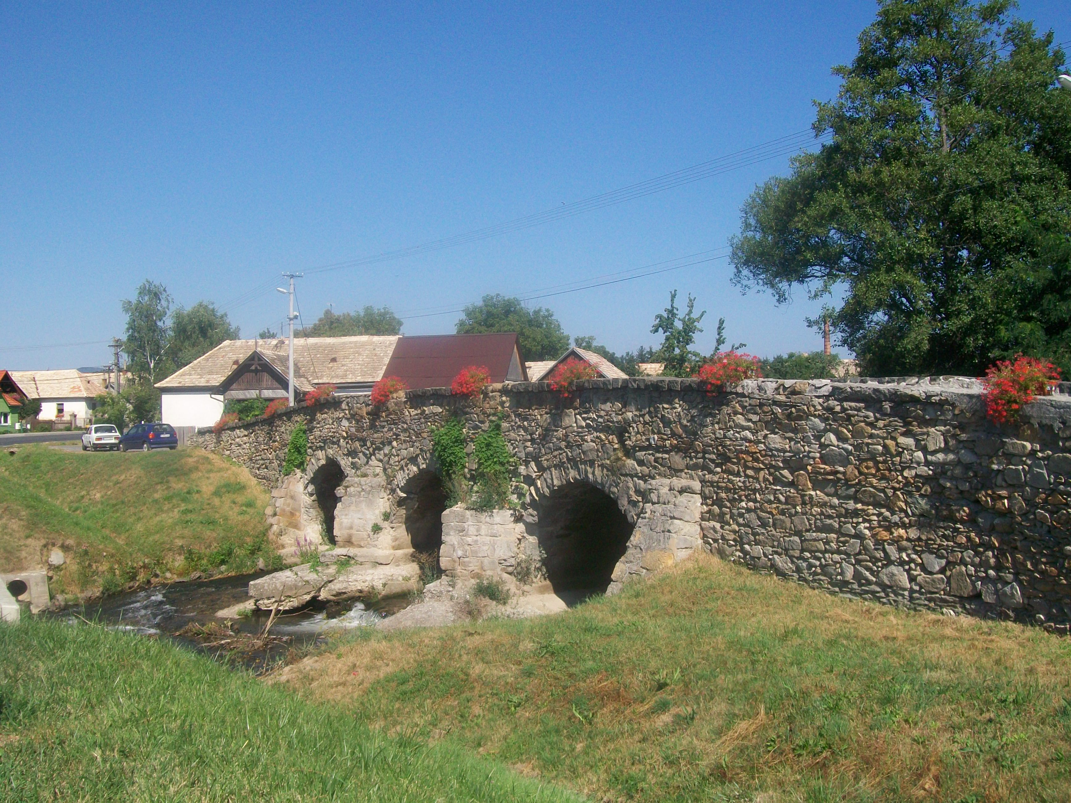 Turkish bridge over the Ipeľ river at Poltár in the south of Slovakia is the third oldest preserved bridge of its kind in Slovakia. Most come from the period of Turkish rule over the region in the years 1554-1593.